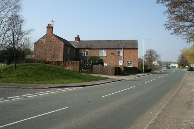 Abenbury farmhouse This well established farmhouse seems to have been enlarged, but probably ceased to be a working farm since the days when this area was a wartime munitions factory.